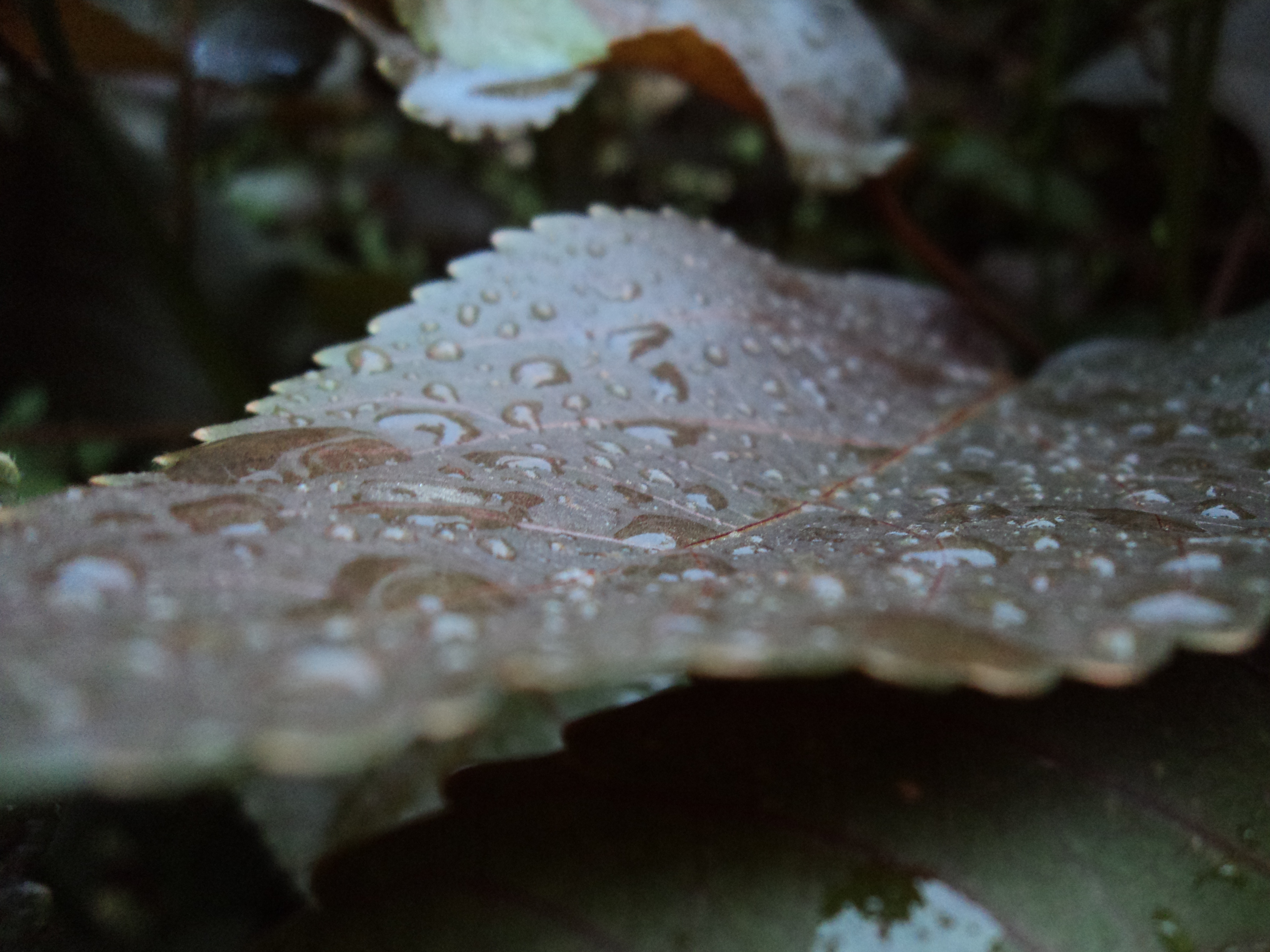 Dew Drops on a leaf